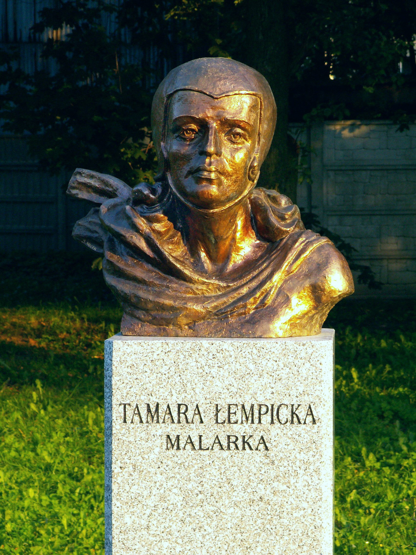 Bust of Tamara Łempicka in Celebrity Alley in Kielce (Poland)